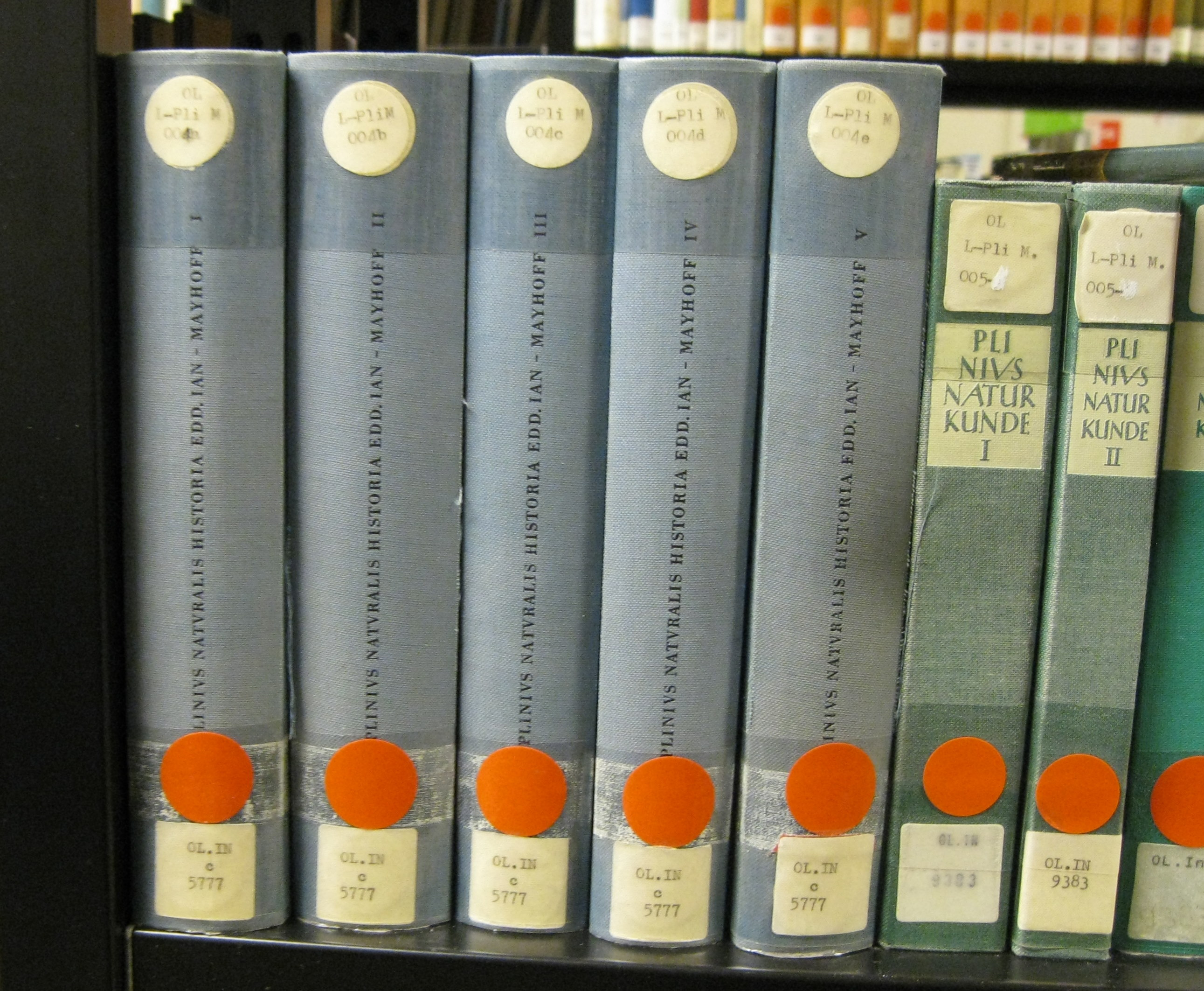 UBN: Plinius: Naturalis historia, Ausgabe von Jan und Mayhoff, 1892-1909